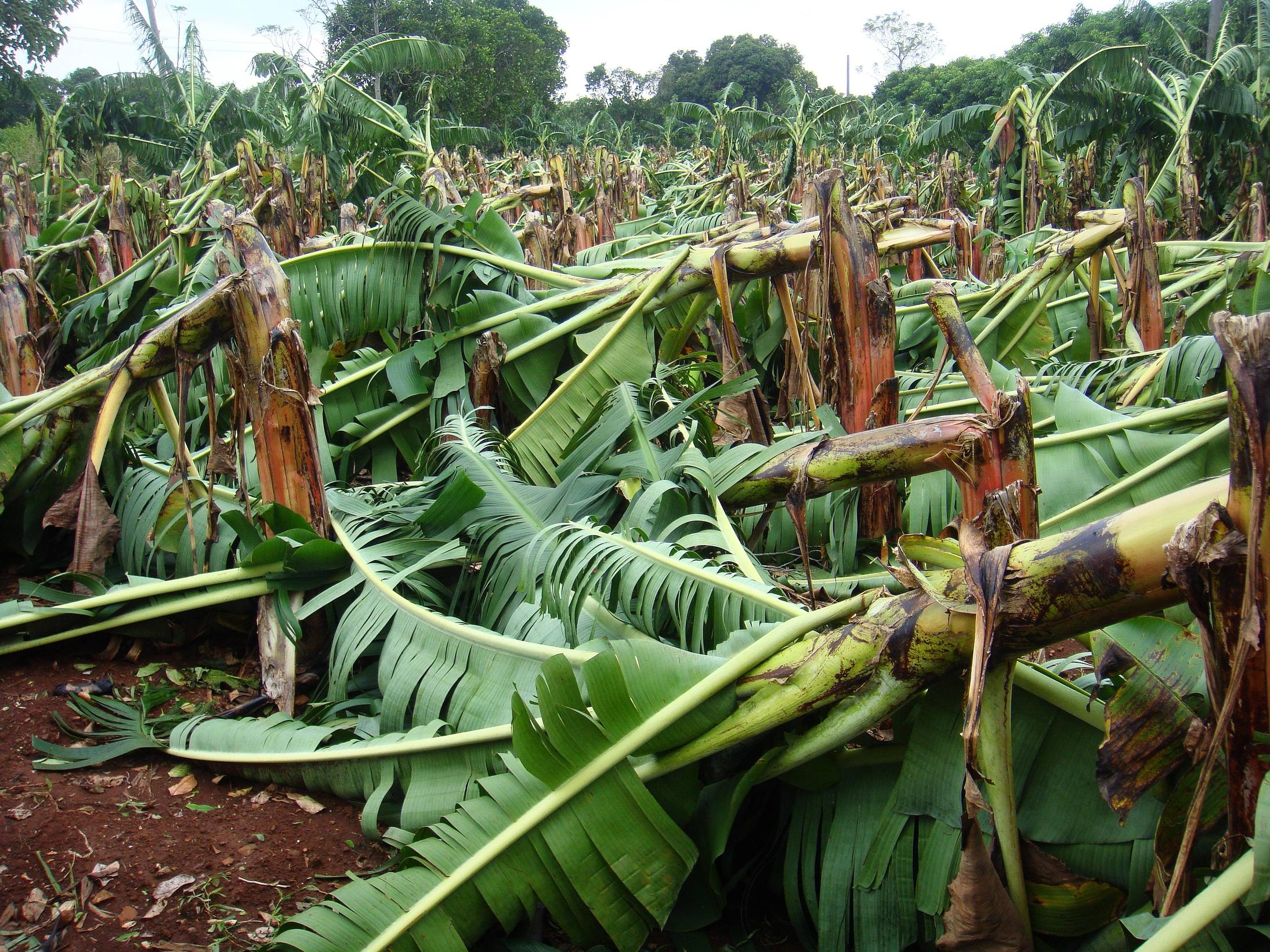 Crop damage in Hainan from Typhoon Sarika (2016), Hainan, China